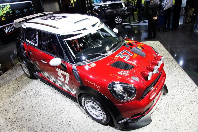 MINI Countryman WRC Rally Car as developed by Prodrive.